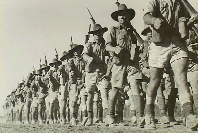 AWM Caption: Darwin. NT. 19 August 1942. A march past of Australian troops at a forward battle station.